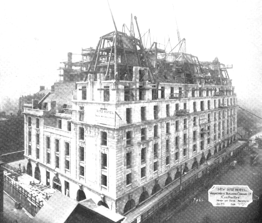 Photo from article about the Ritz Hotel, London from the October 1905 issue of Fireproof magazine.